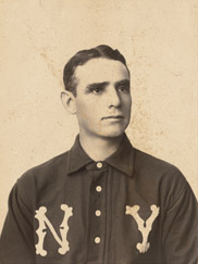 Clark Griffith cropped from File:New York Highlanders Baseball Team, 1903.jpg Accession No.: 06_06_000176 Title: New York Highlanders Baseball Team, 1903 Caption: New York Americans. 1903 Creator: Horner, Charles J. Date: 1903 Format: photograph Description: Individual portraits on mount with decorative vignettes in ink wash. In center, portrait of Clark Griffith, pitcher. Top row, left to right, Dave Fultz, outfielder, Kid Elberfield, shortstop, Wid Conroy, third baseman, Jack Chesbro, pitcher, Monte Beville, catcher, Jack O'Connor, catcher. Middle row: John Deering, pitcher, Jimmy Williams, second baseman, Griffith, Jack Zalusky, catcher, Lefty Davis, outfielder. Bottom row: Wee Willie Keeler, Jesse Tannehill, pitcher, Harry Howell, pitcher, Herm McFarland, outfielder, John Ganzel, first baseman. BPL Collection: McGreevey Collection BPL Department: Print Subject: Baseball--History New York Yankees (Baseball team)